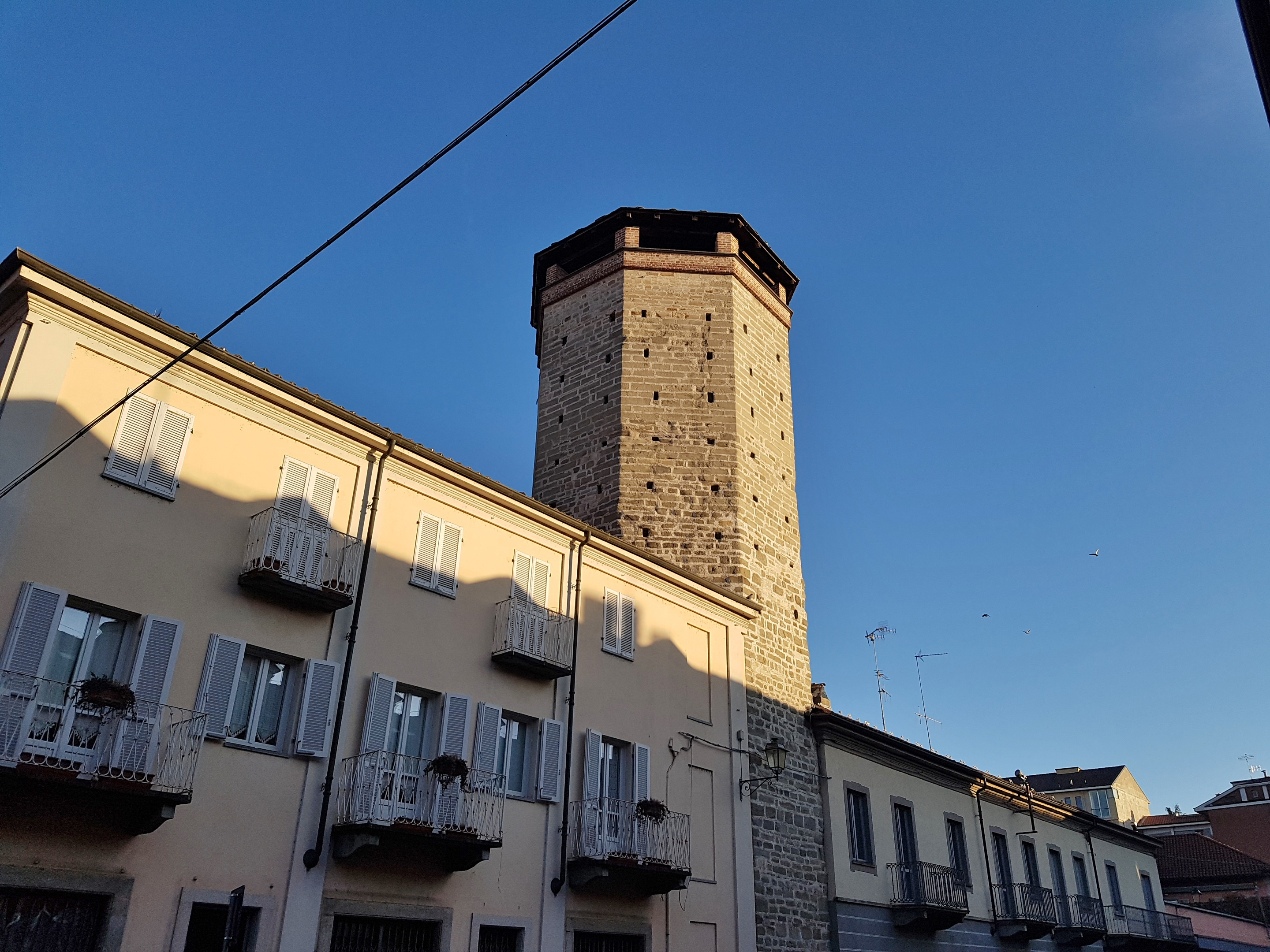 Octagonal Tower (1178 ca.), Chivasso, Northern Italy